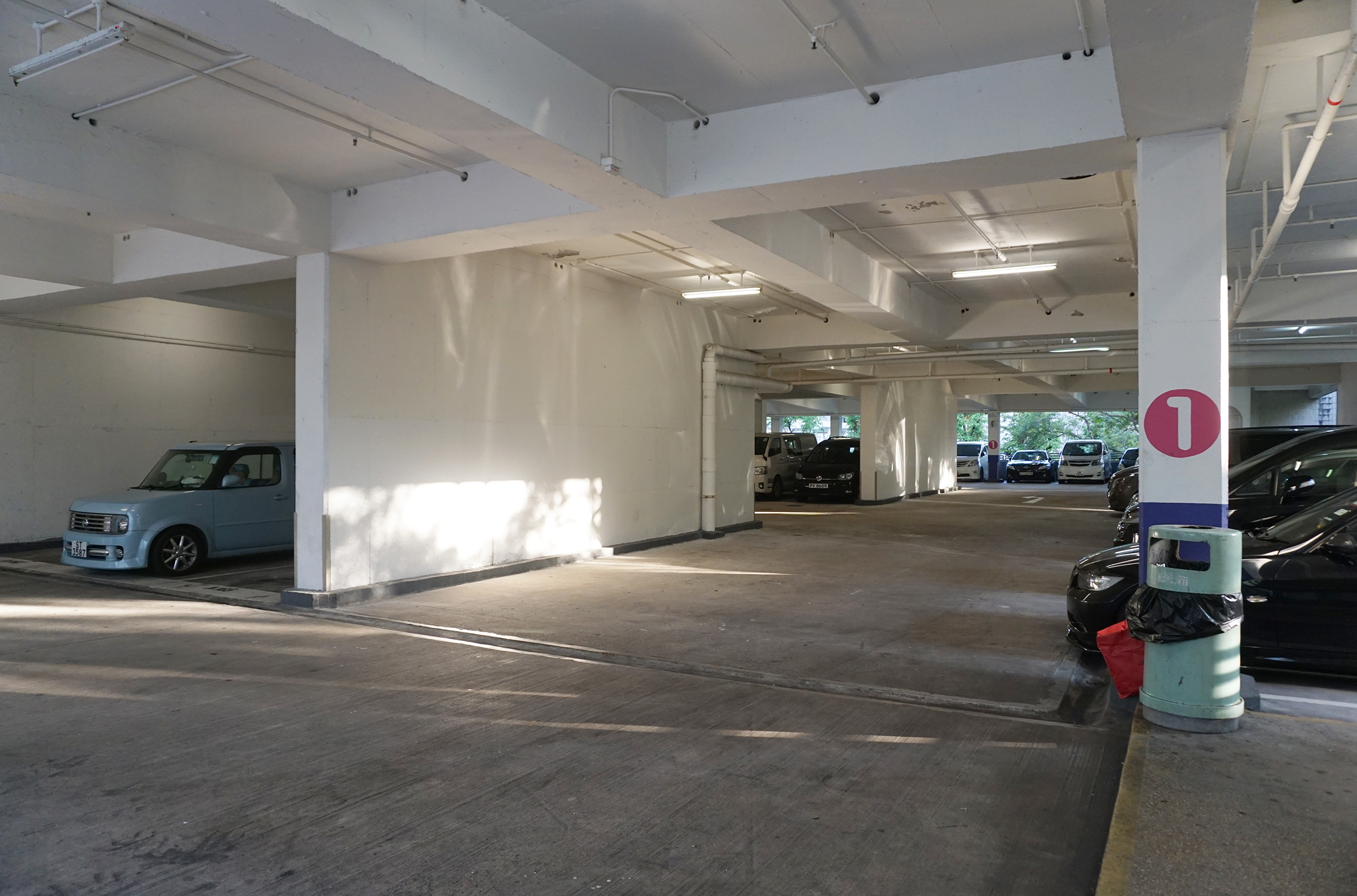 Chuk Yuen South Estate in Wong Tai Sin, Hong Kong.